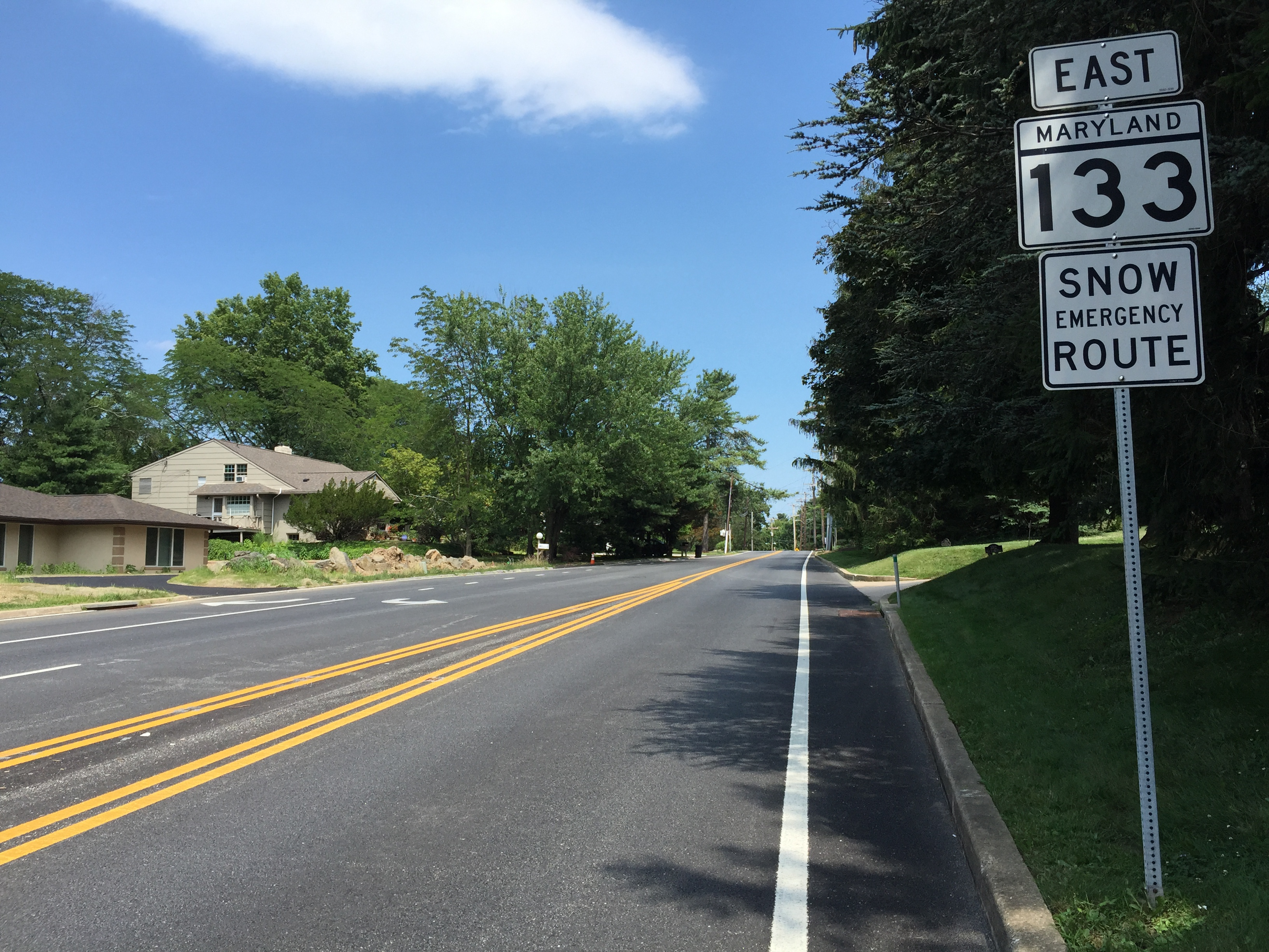 View east along Maryland State Route 133 (Old Court Road) just east of Stevenson Road in Pikesville, Baltimore County, Maryland